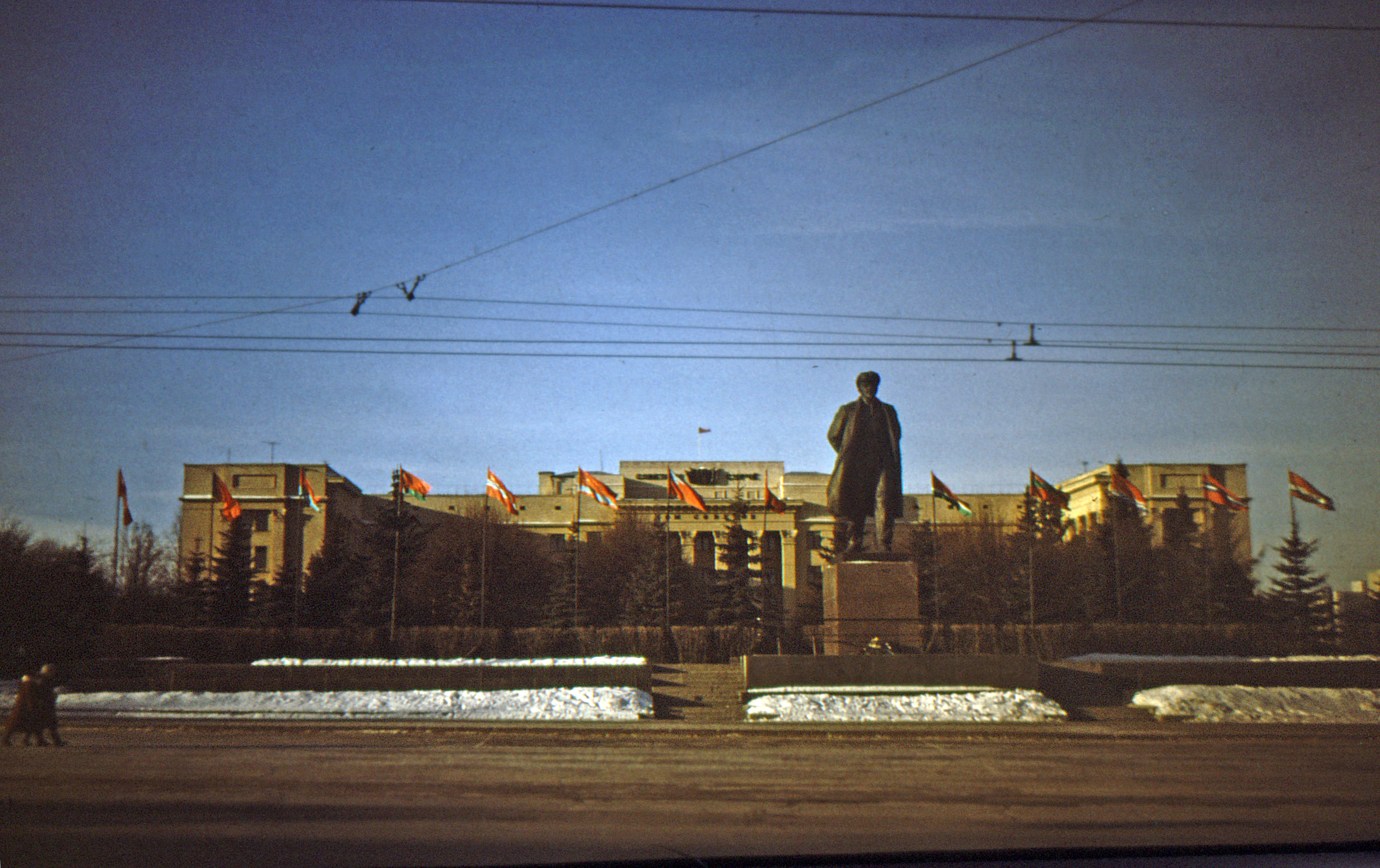 Cheboksary. House of Soviets on Lenin Square. 1987